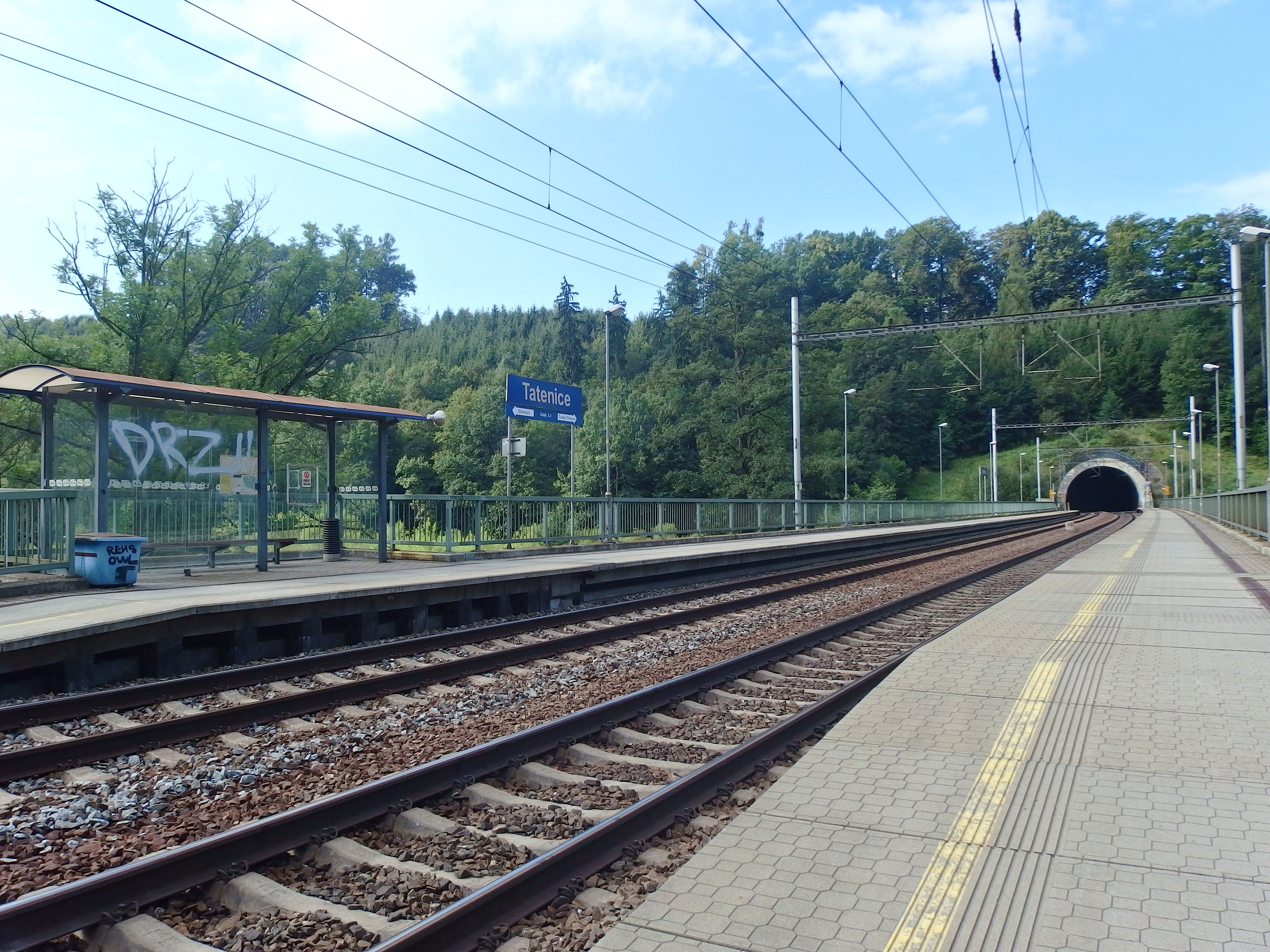 Tatenice, Ústí nad Orlicí District, Czech Republic. Railway stop.